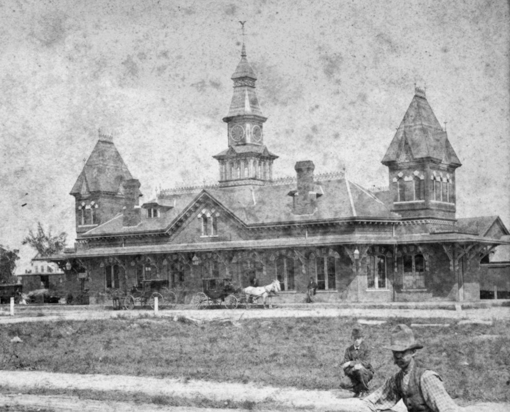 The Victorian-style railroad station at Brockton in the 19th century